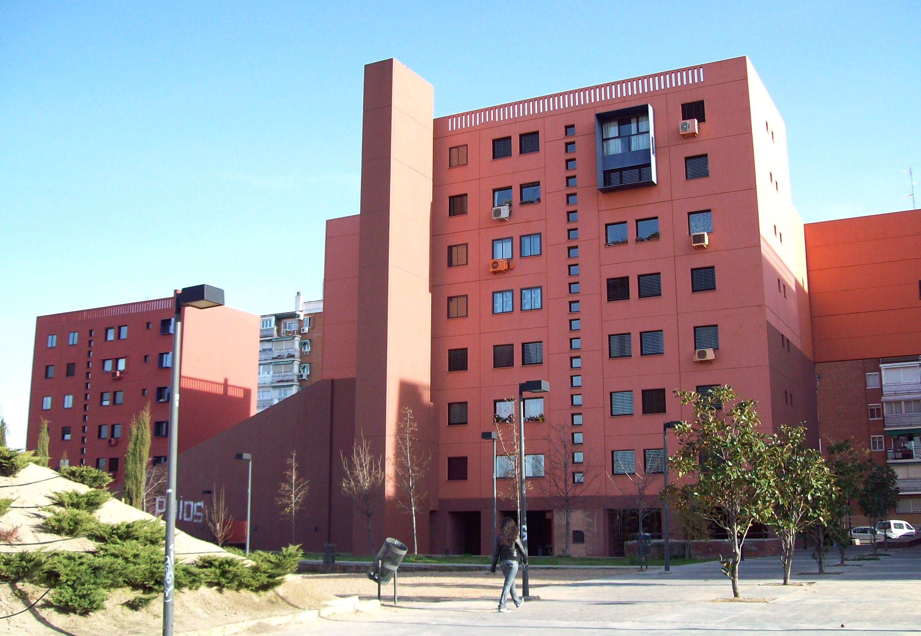 Housing building Parque Europa in Madrid (Spain).